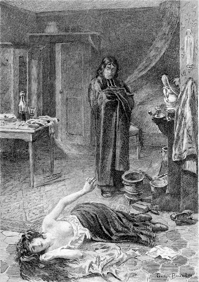 Title page of Honoré de Balzac's The Splendors and Miseries of Courtesans (1847).